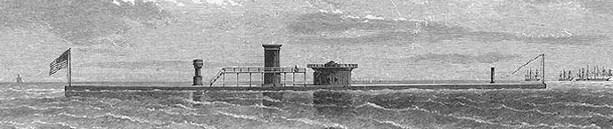 A cropped line engraving of the USS Puritan (1864). Original found at